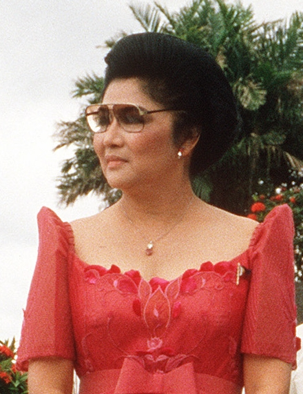 Imelda Marcos in October 20, 1984